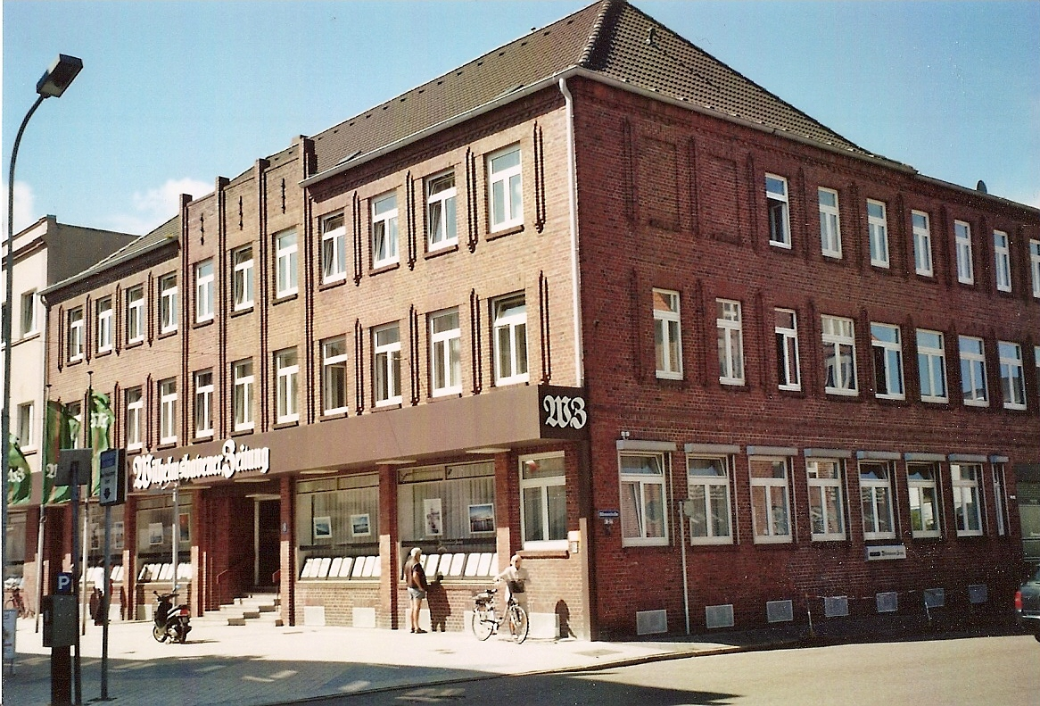 Publishing House of "Wilhelmshavener Zeitung"